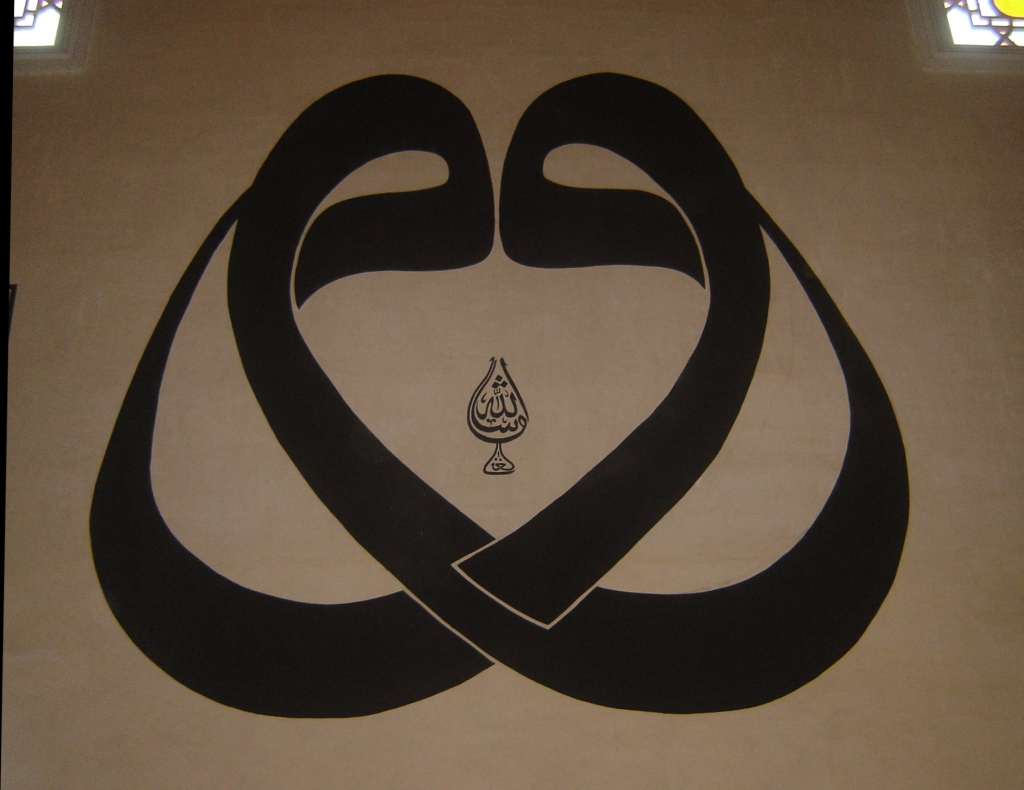 Decorative inscription on the walls of 'Ulu Mosque' in Edirne, Turkey